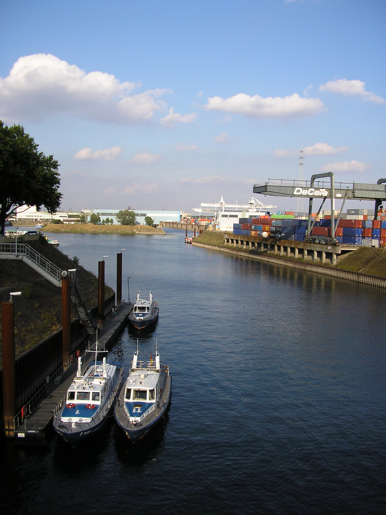 Harbor, Ruhrort (Duisburg, Germany)